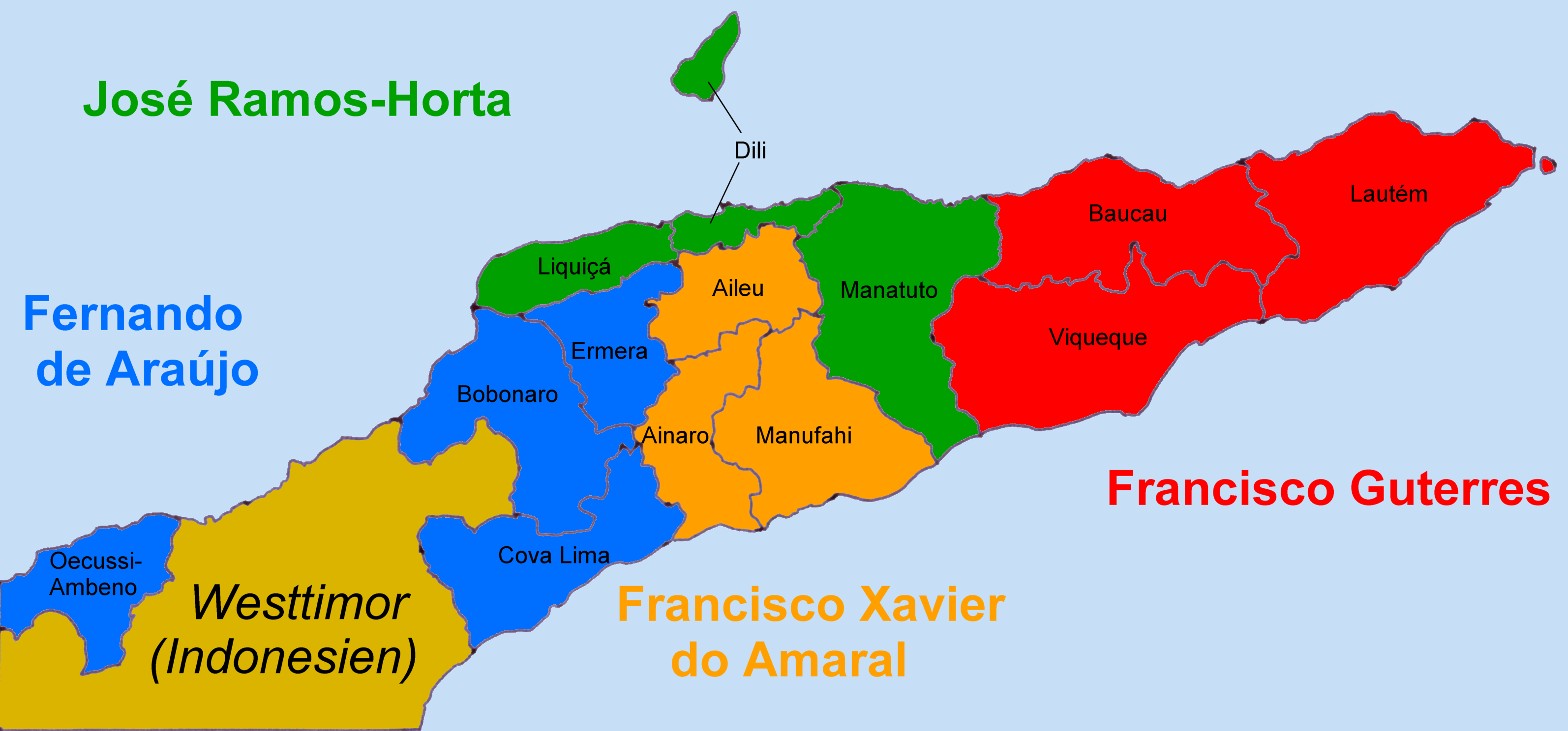 Results of president elections in East Timor 2007, first round. Strongest candidat in each district.